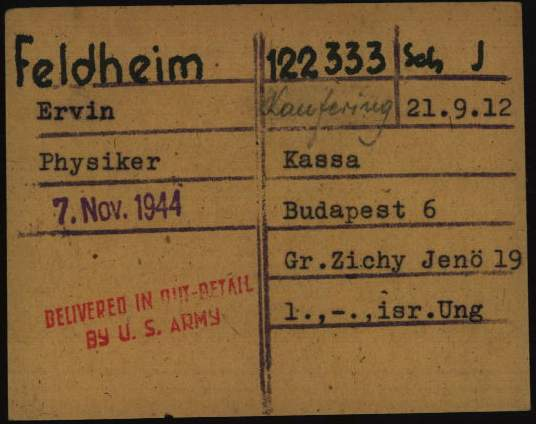 Registry card of Ervin Feldheim as a prisoner at Dachau Nazi Concentration Camp Red stamp means he was liberated by the U. S. Army from a Dachau sub-camp (out-detail)